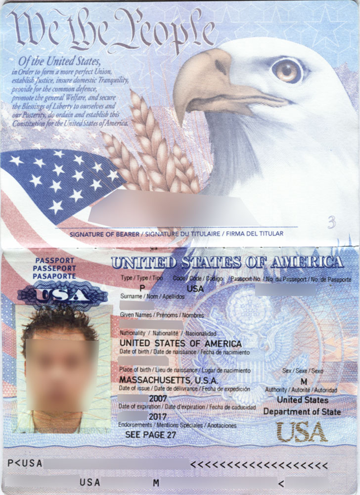 First two pages of a biometric US passport issued in 2007.